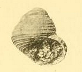 Danilia otaviana (Cantraine, 1835); family Chilodontidae